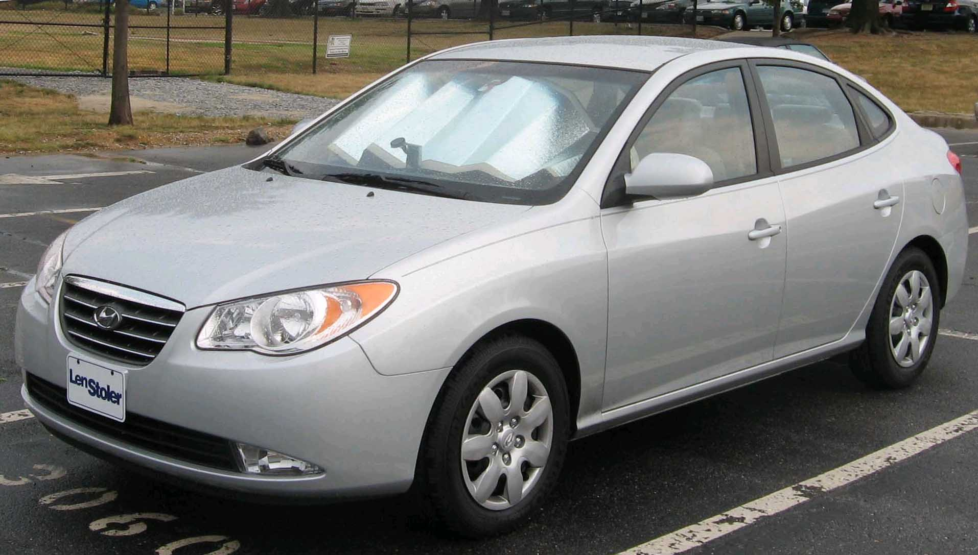 2007 Hyundai Elantra photographed in College Park, Maryland, USA.